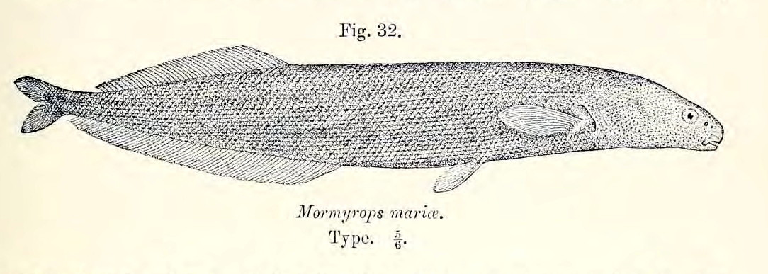 Mormyrops mariae (Schilthuis, 1891)